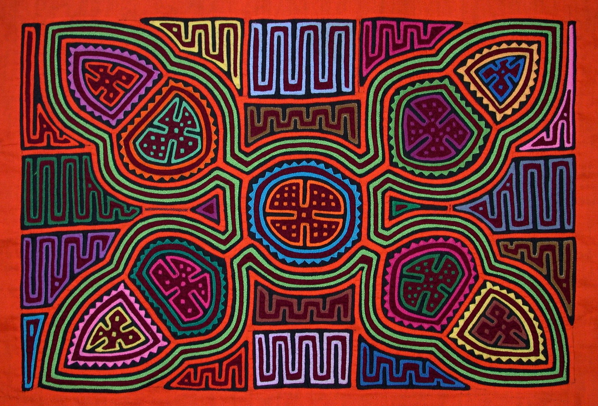 A molas made in the San Blas Islands of Panama. The design is traditional. Picture by S/V Moonrise.